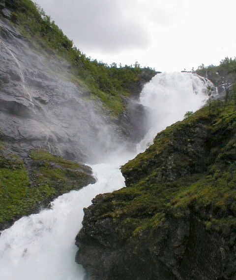 Kjosfoss Waterfall on the Flåmsbana, photo by Matthew Mayer (2001) Original here